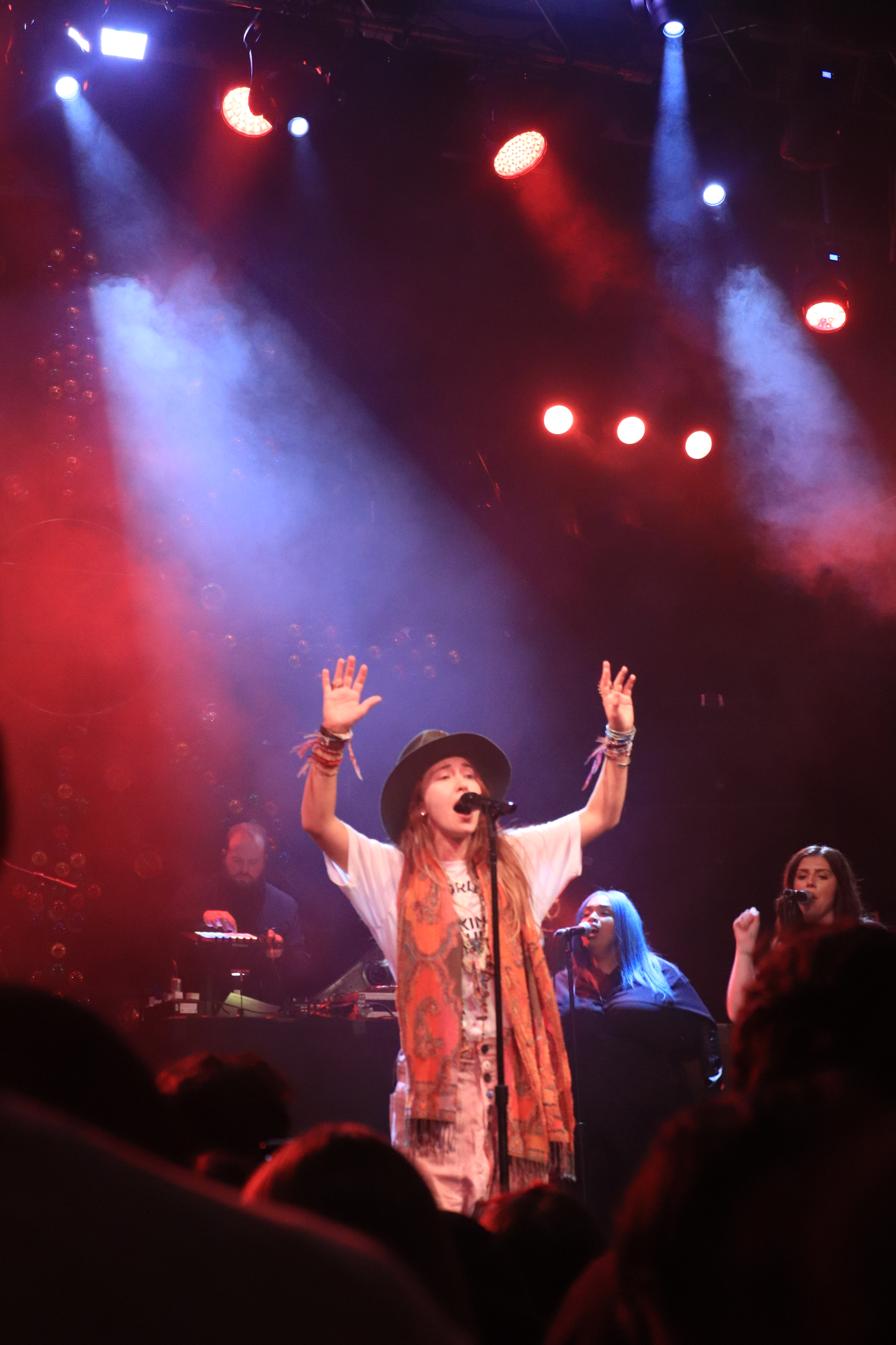 Lauren Daigle's concert in Joy Eslava, Madrid, 2019